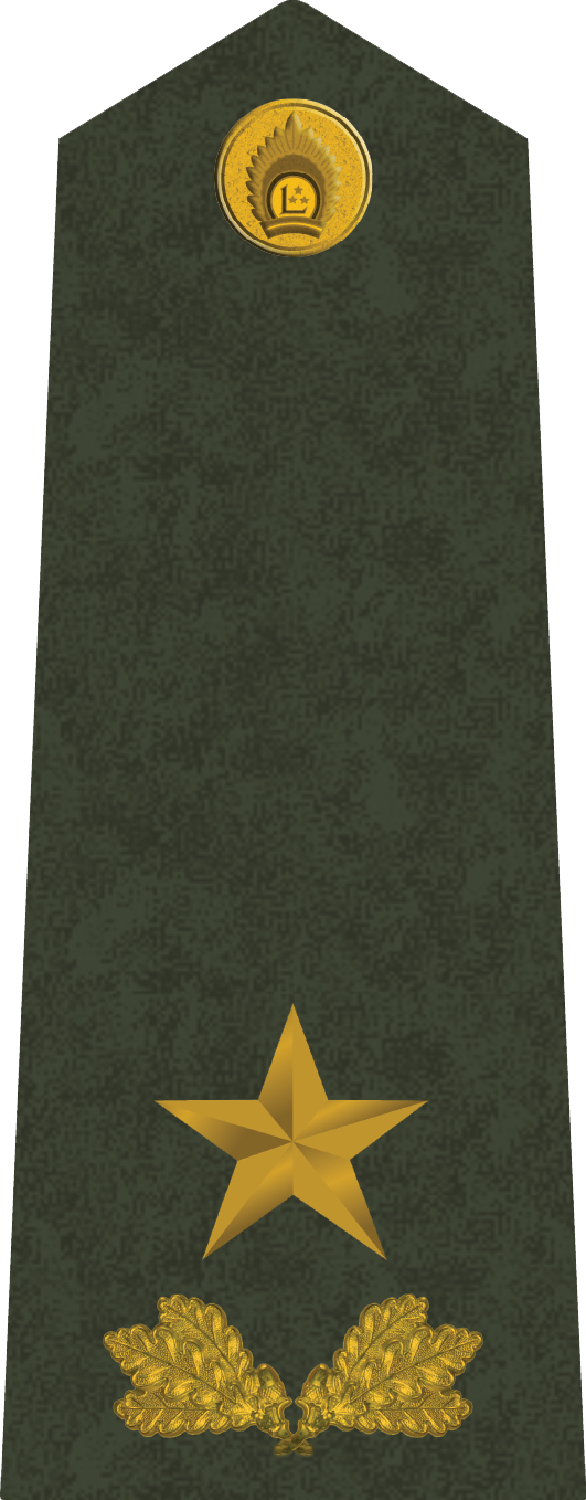 Latvian Brigadier General rank insignia